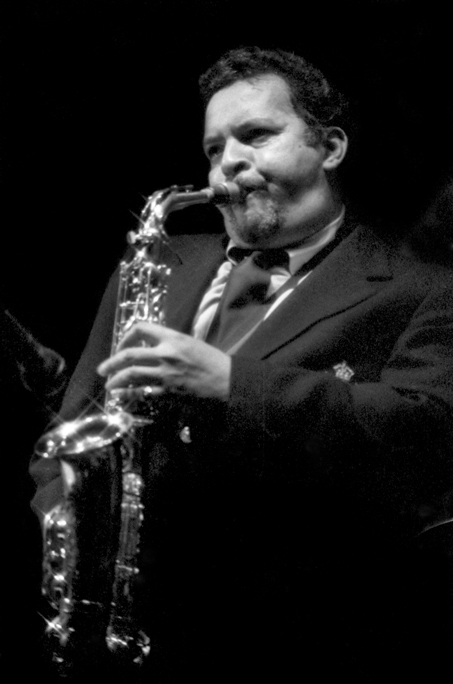 Jackie McLean at Keystone Korner SF 12/82 (Photo: Brian McMillen / )